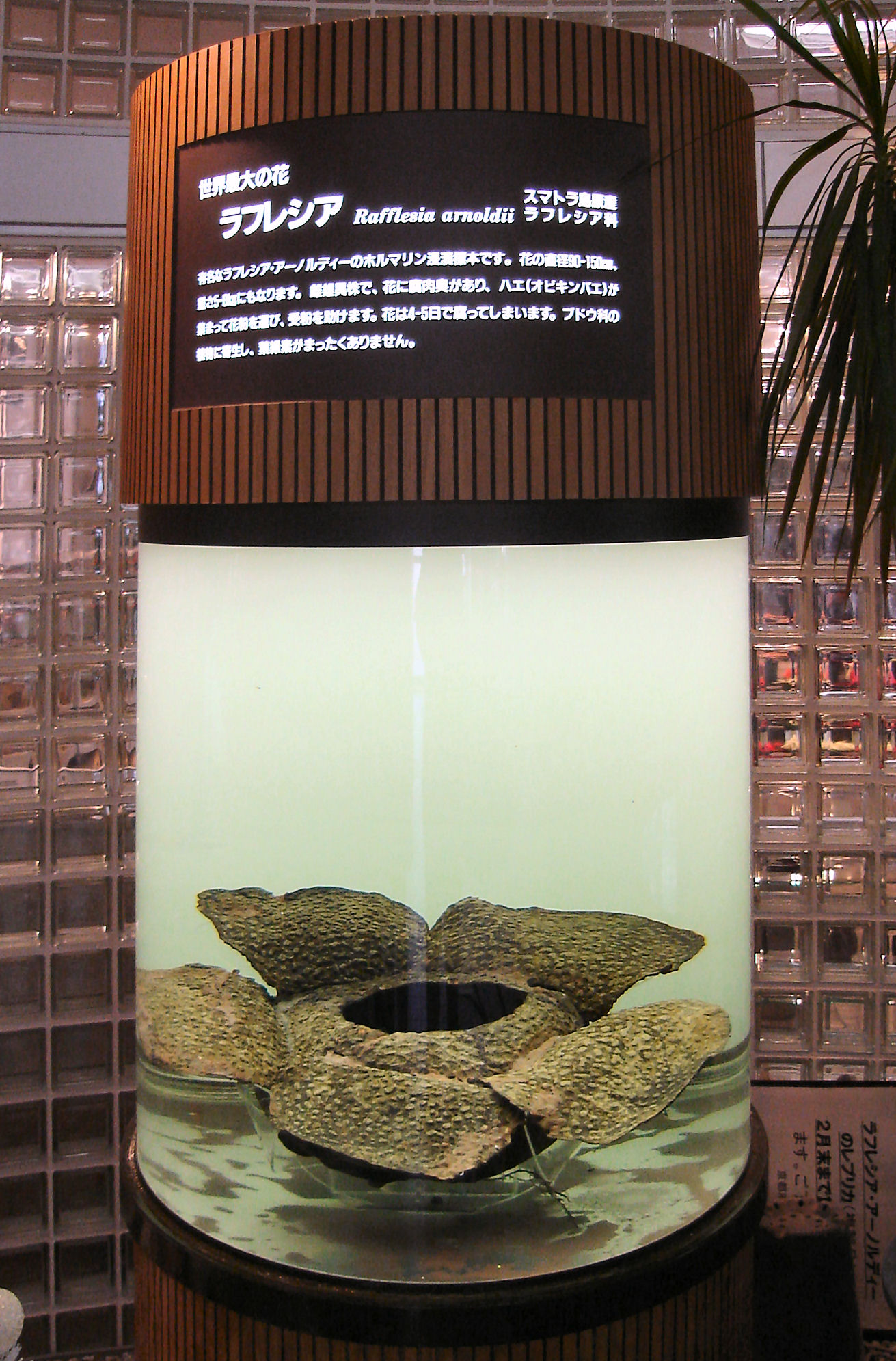 Specimen of Rafflesia arnoldii at the Kyoto Botanical Garden, Rafflesia arnoldii from Sumatera forests (Bengkulu Province).